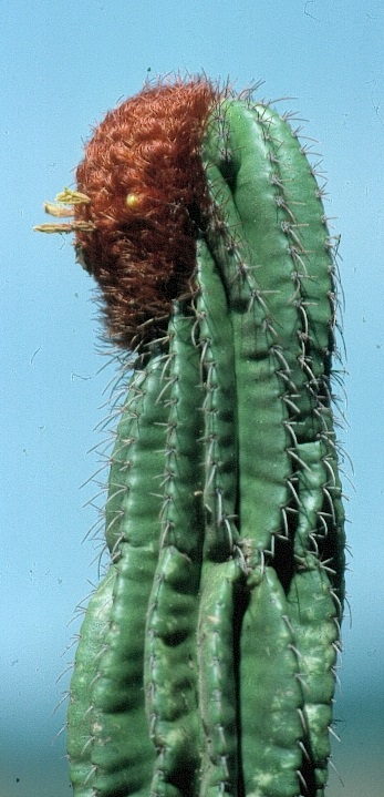 plant at type locality, Espirito Santo, Brasil